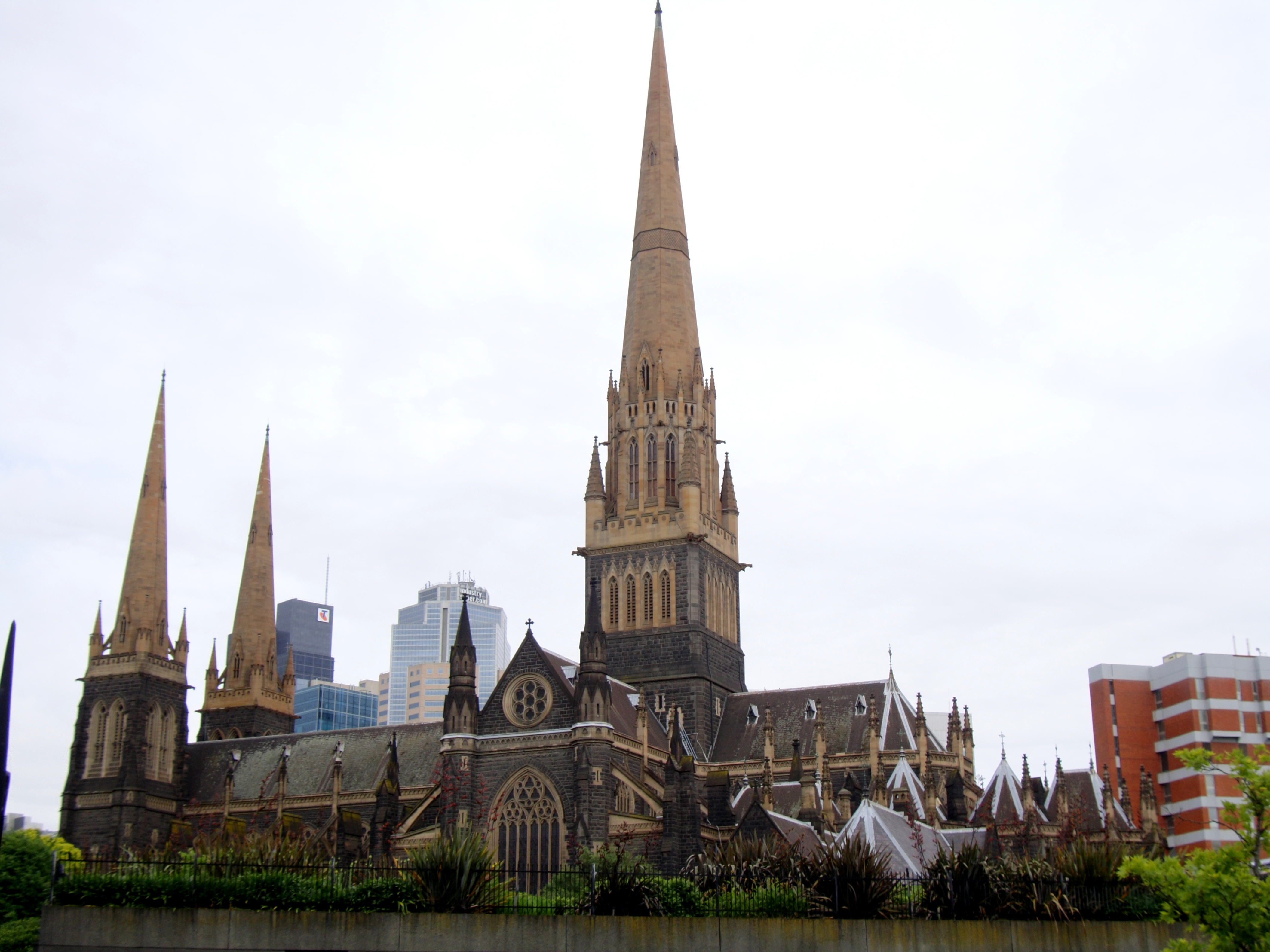 Photograph of St Patrick's Cathedral, Melbourne, Victoria, Australia